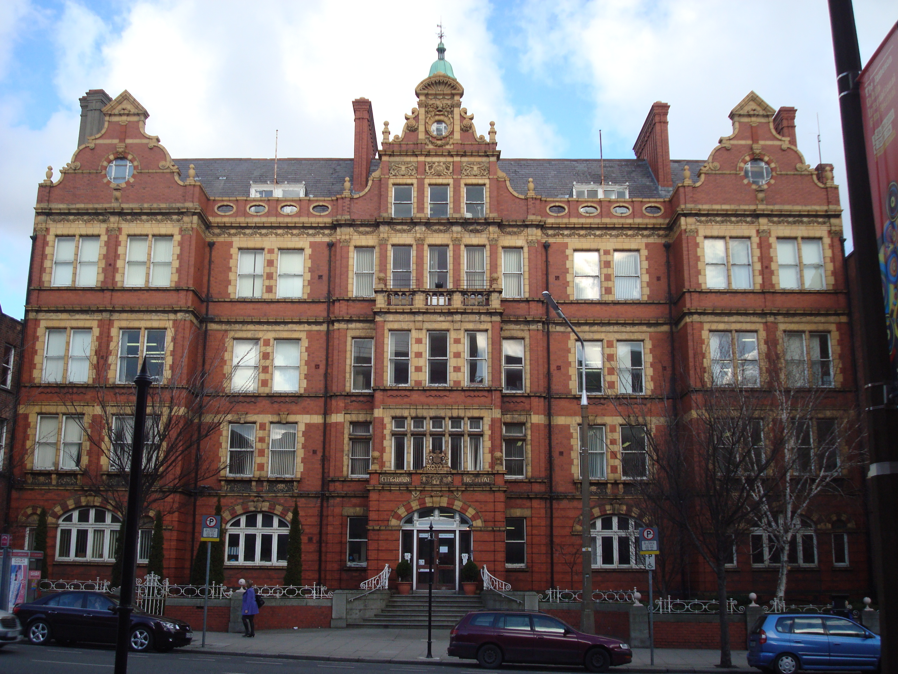 Royal City of Dublin Hospital, Baggot Street, Dublin, Ireland